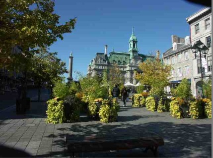 Place Jacques-Cartier, in Old Montreal, October 2005. The Nelson column is visible in the far center and the City hall on its right. Photo by: User:gene.arboit